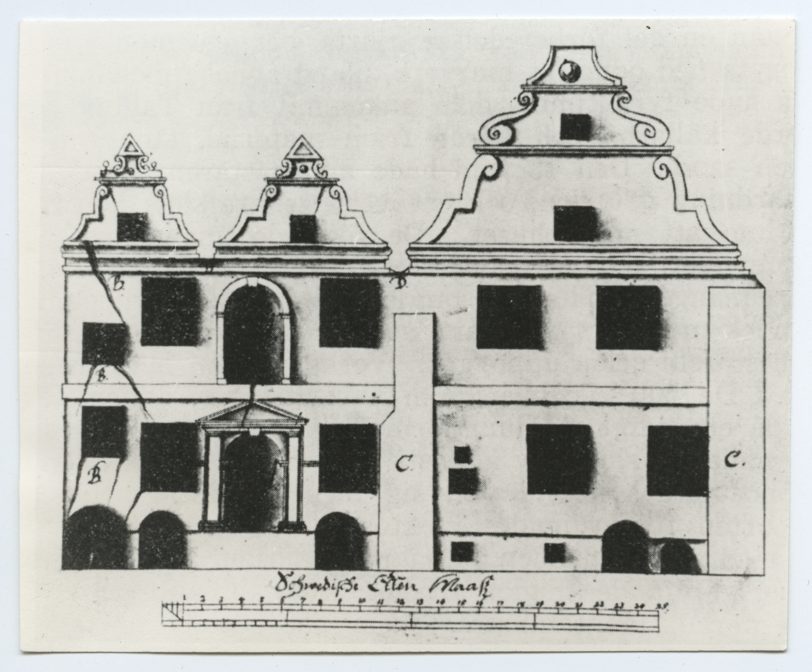 Drawing of the original building of the Academia Gustaviana (now Tartu University, Estonia).